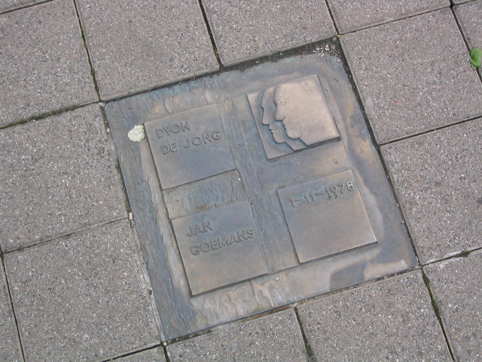 Memorial - Nieuwstraat, Kerkrade